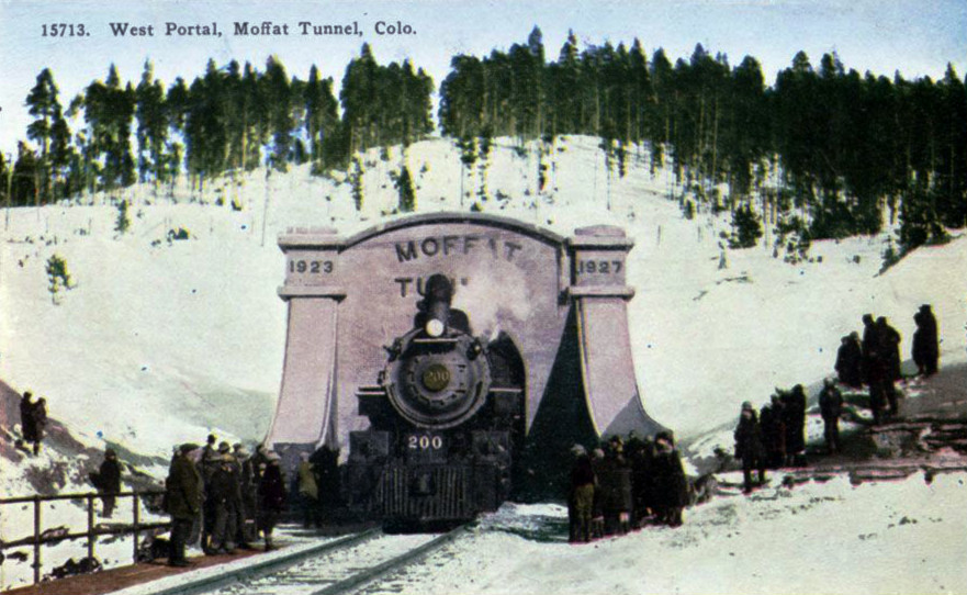 Postcard photo of a steam train exiting the western portal of the Moffat Tunnel. While this is not the first train to use the tunnel, by the gathered crowd, it appears to be one of the first that used the tunnel beginning in February 1928.